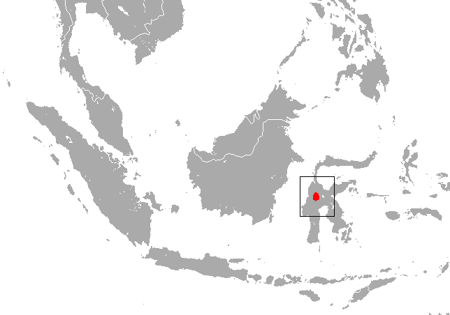 Lariang Tarsier (Tarsius lariang) range IUCN: Tarsius lariang Merker & Groves, 2006 (old web site) (Data Deficient)